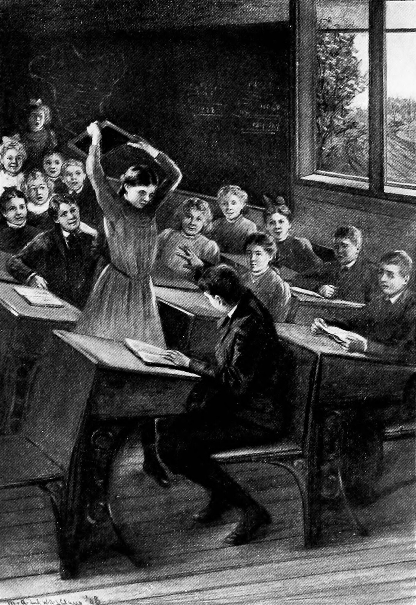 Scan of page 156 of the book Anne of Green Gables (1909)